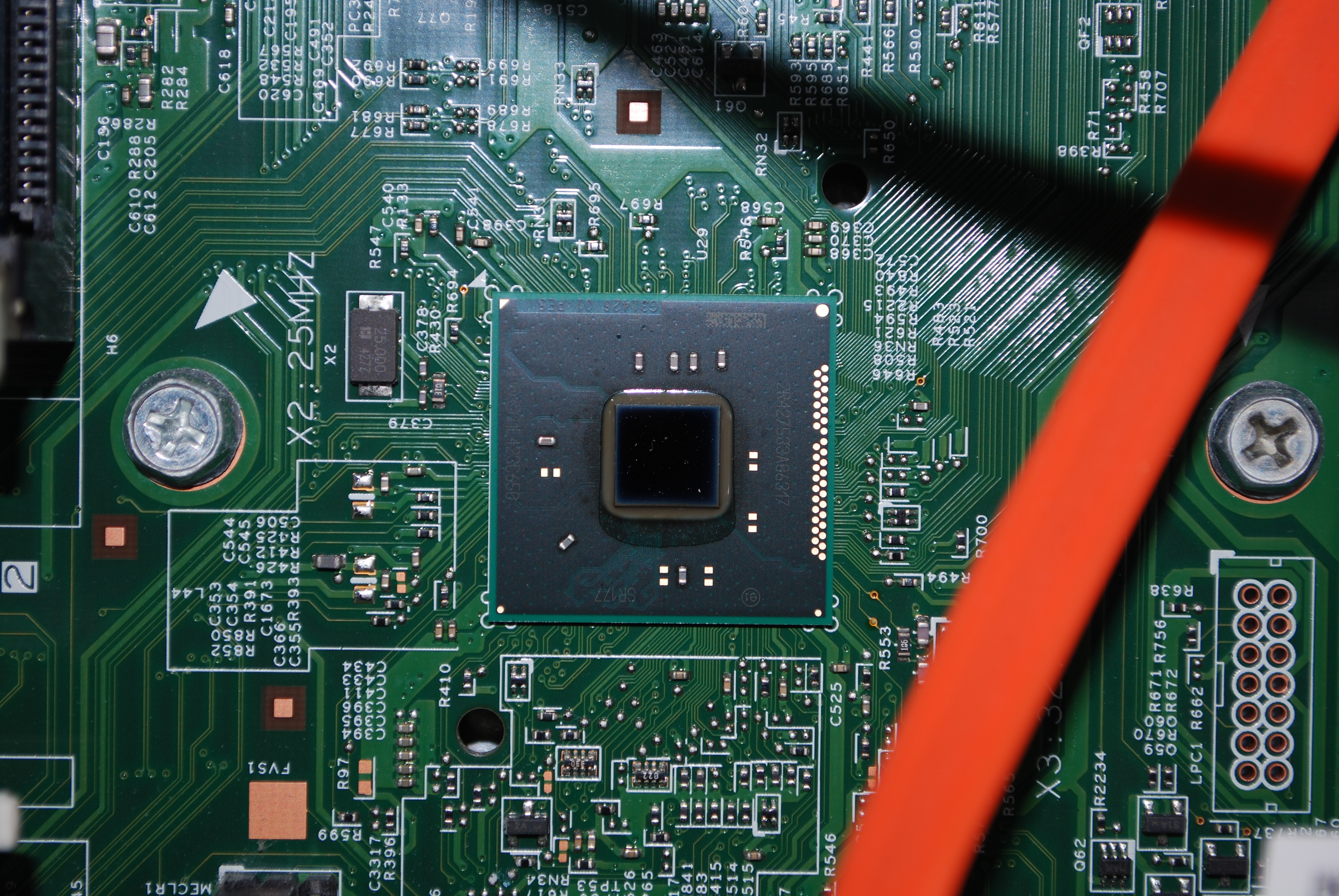 An Intel PCH with a exposed die installed on a H81 chipset motherboard.